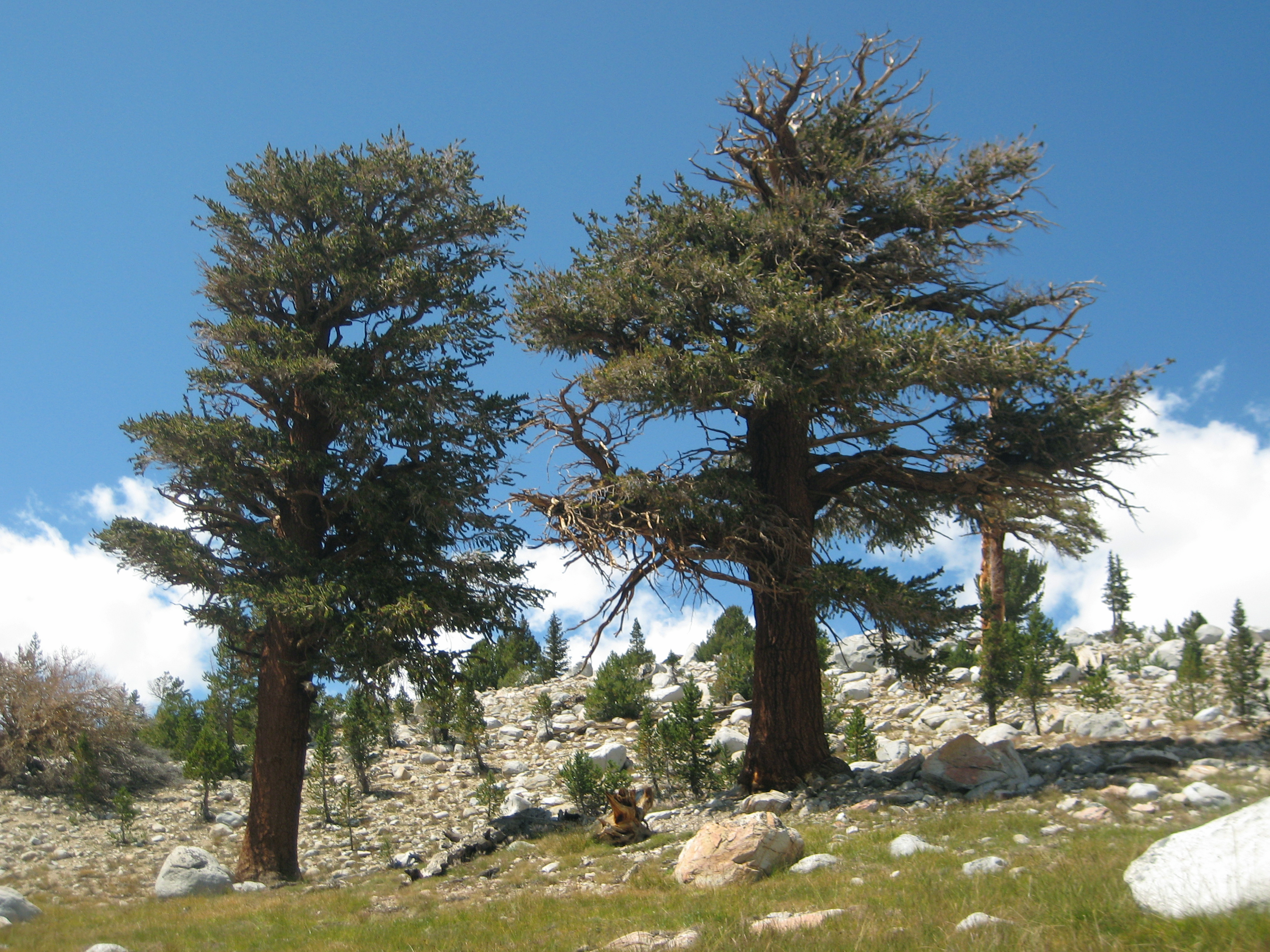 Pinus balfouriana subsp. austrina. John Muir Trail, between Forester Pass and Wallace Creek.